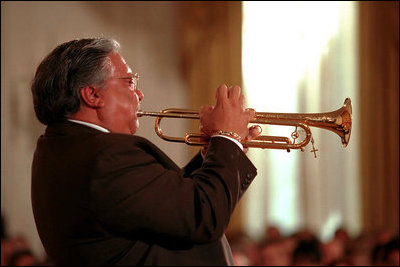 Arturo Sandoval performs during a White House reception celebrating Hispanic Heritage Month in the East Room Oct. 12, 2001.